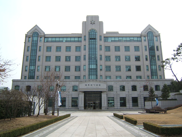 Centennial Hall at Sookmyung Women's University.